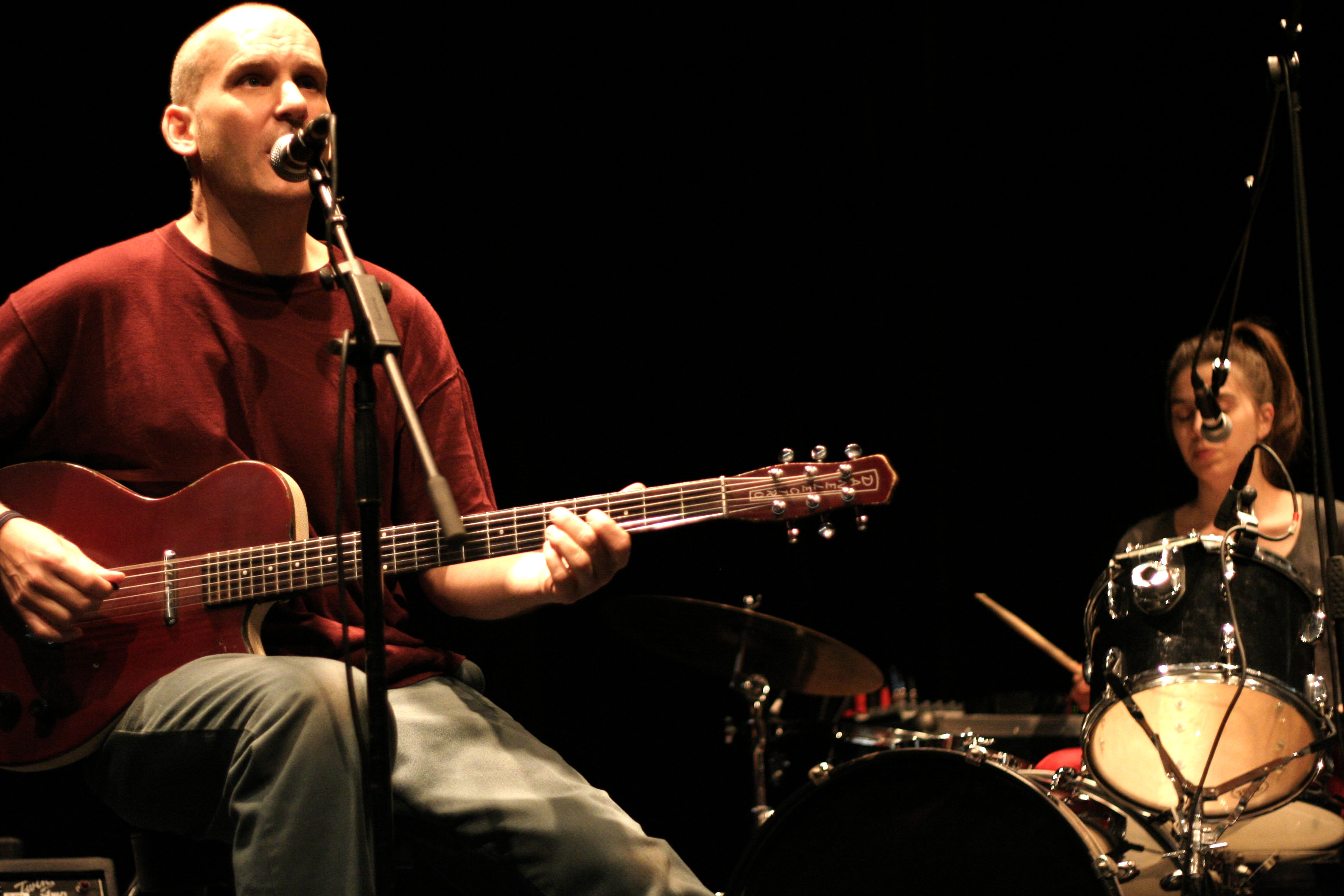 The Evens